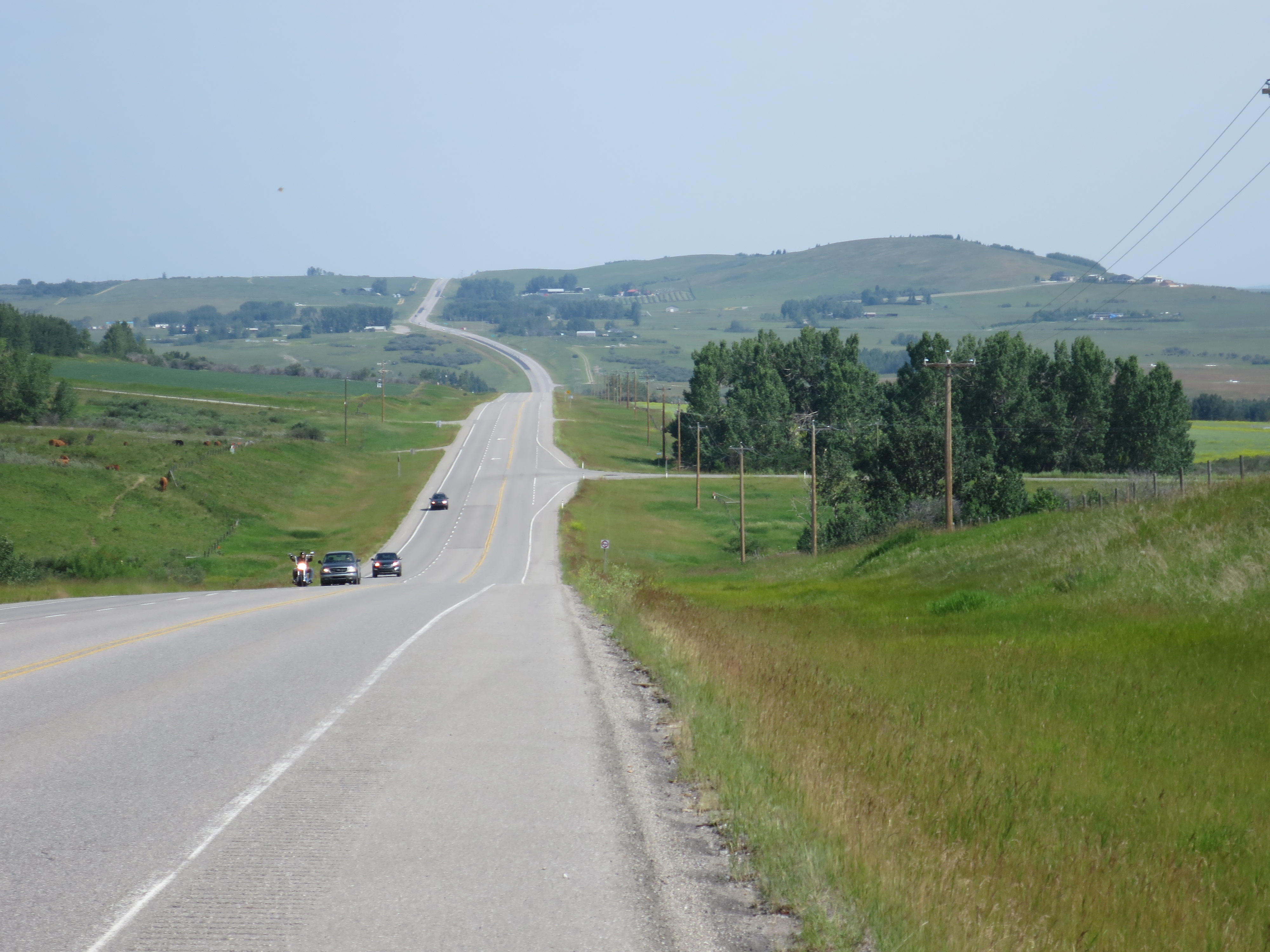 Looking north along the Cowboy Trail (Alberta Highway 22, Canada) towards the unincorporated community of Hartell between the village of Longview and the town of Black Diamond.